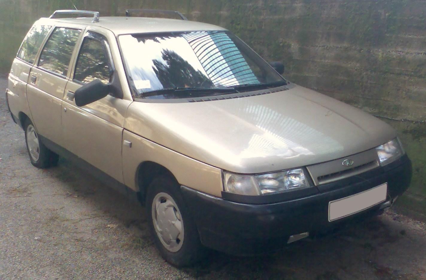 Lada 111